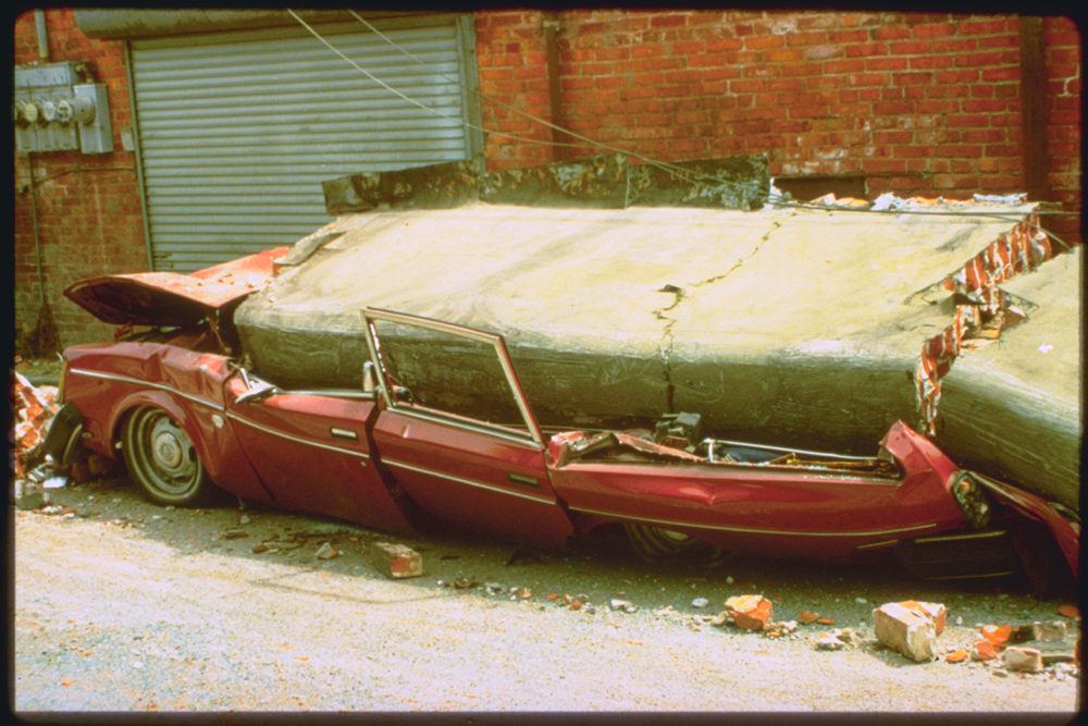 Damage to cars caused by a fallen brick facade outside a grocery store in Ferndale, California, during the 1992 Mendocino earthquakes - the same facade collapsed after the 1906 San Francisco earthquake, killing two cows